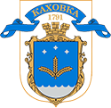 Coat of Arms of Kahovka Kherson Oblast Ukraine